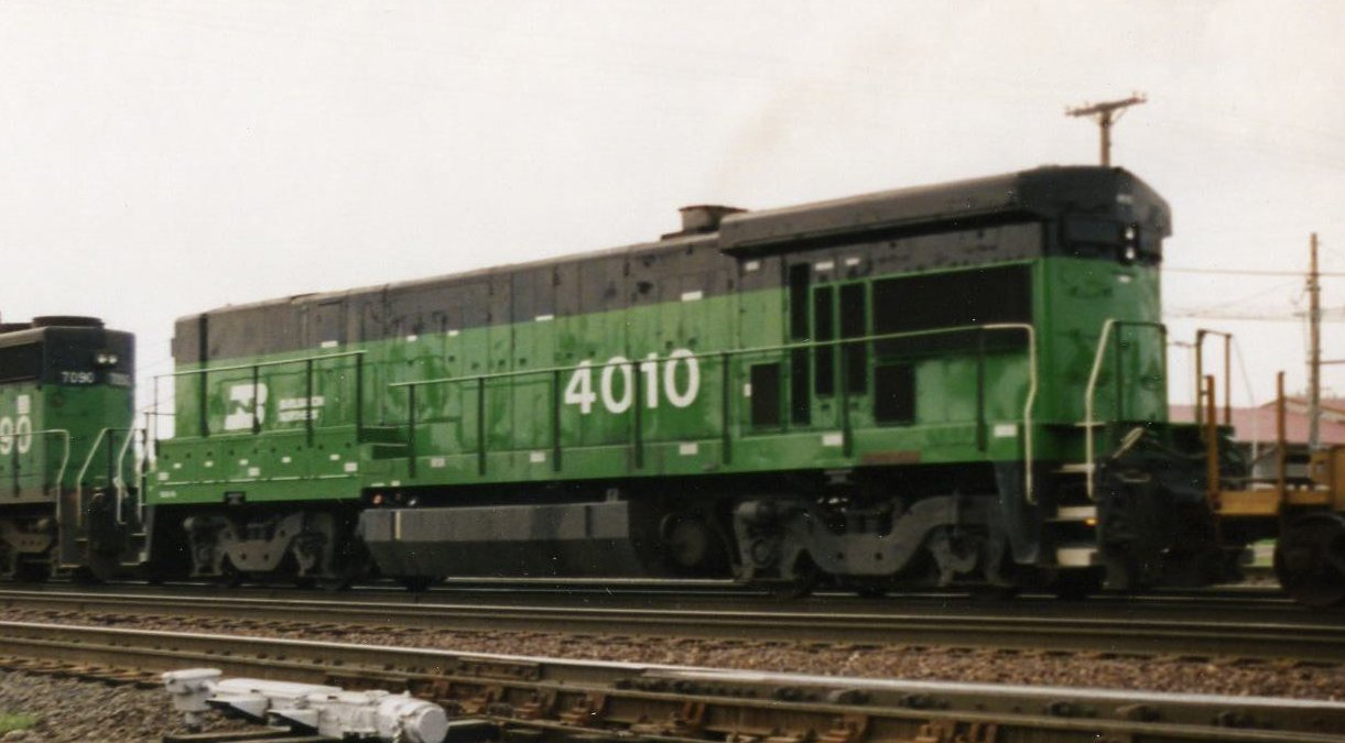 Burlington Northern Railroad number 4010, a GE B30-7AB, in Aurora, Illinois, in 1993.